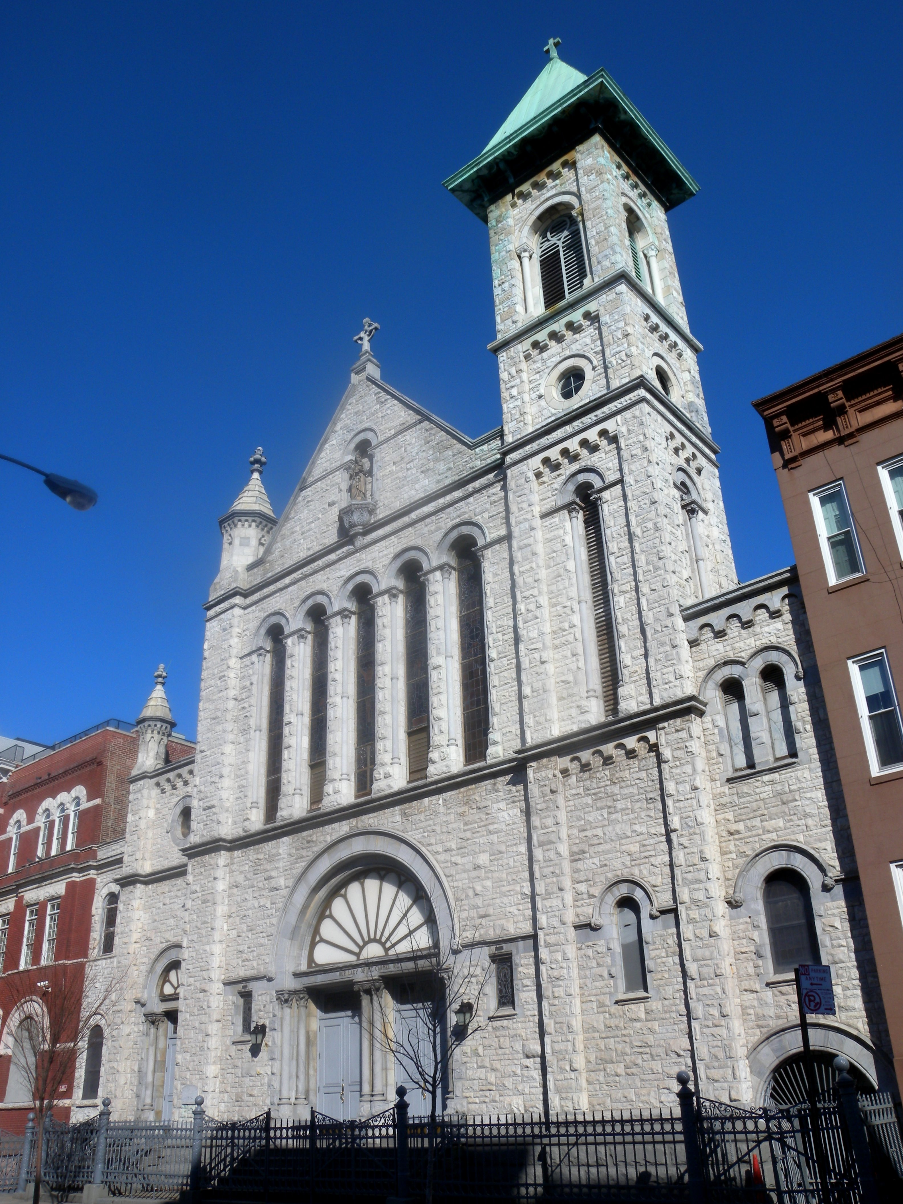 Looking north at Our Lady of Mt Carmel Church on a sunny midday.